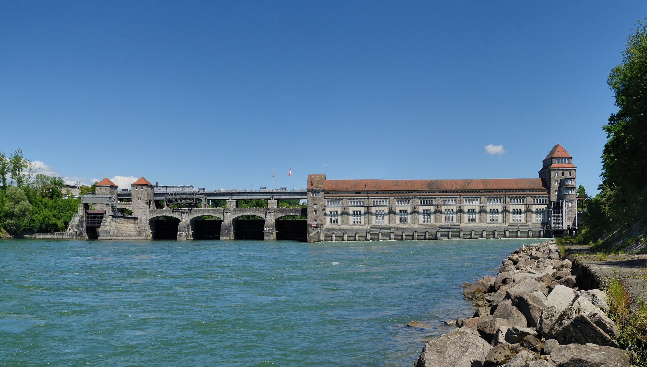 hydroelectric power station Laufenburg